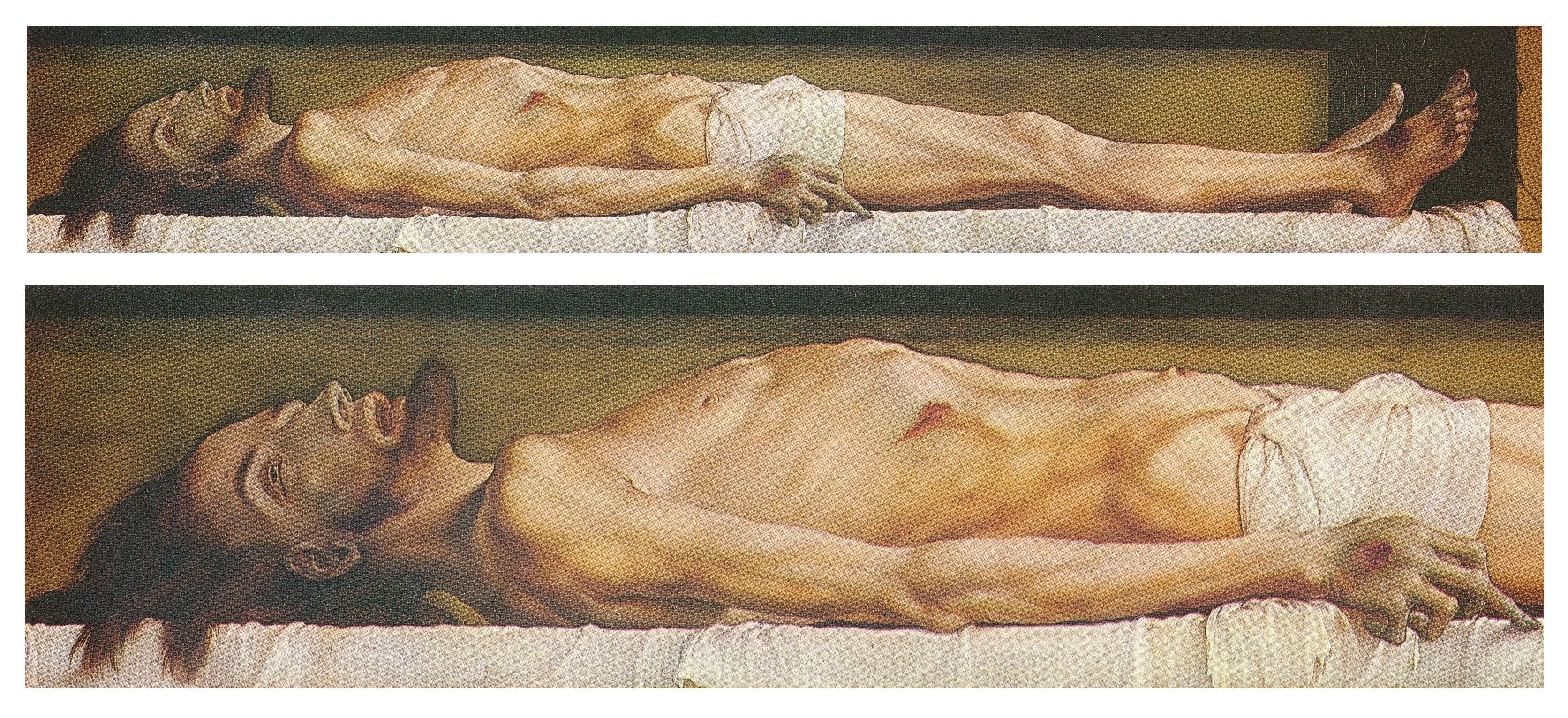 The Body of the Dead Christ in the Tomb and a detail. oil and tempera on linden wood, 30.5 × 200 cm, Kunstmuseum Basel.